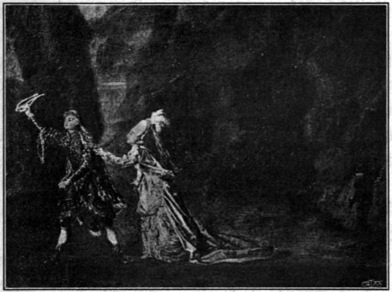 Scene from Gluck's "Orpheus and Eurydice"